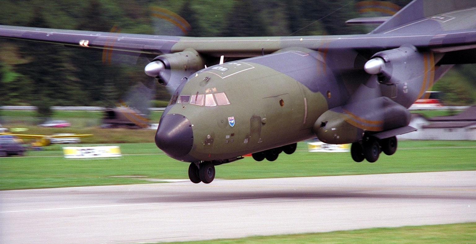 Steepest landing I ever saw, almost a controlled crash, with rear legs touching down a full 5 seconds after nosewheel. Awesome.